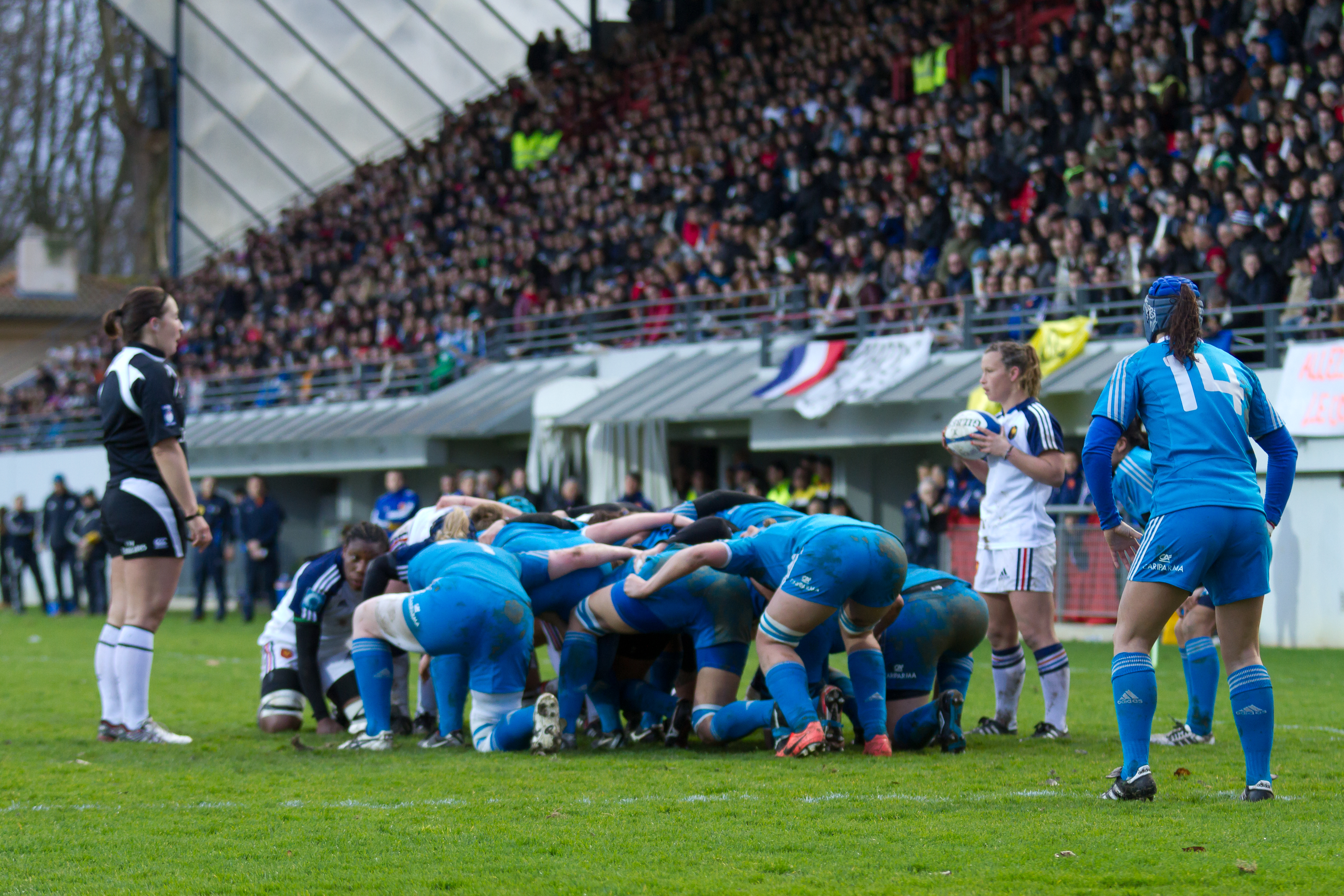 2014 Women's Six Nations Championship — 9 February 2014, Stade Ernest Argeles. Match between: France women's national rugby union team — Italy women's national rugby union team